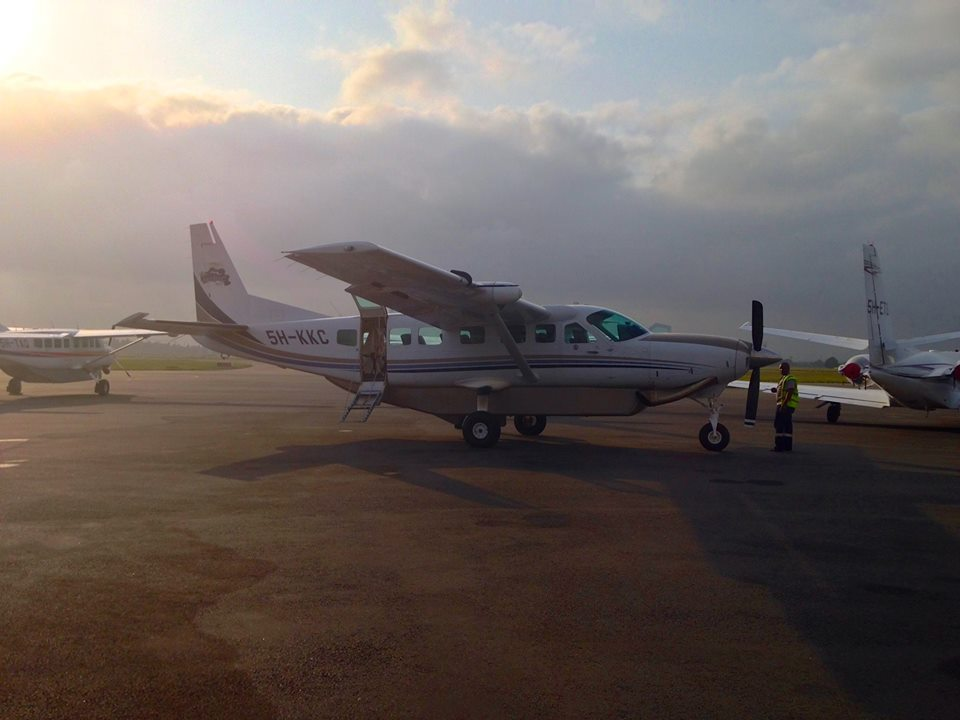 Auric air Cessna 5H-KKC parked at Julius Nyerere International Airport